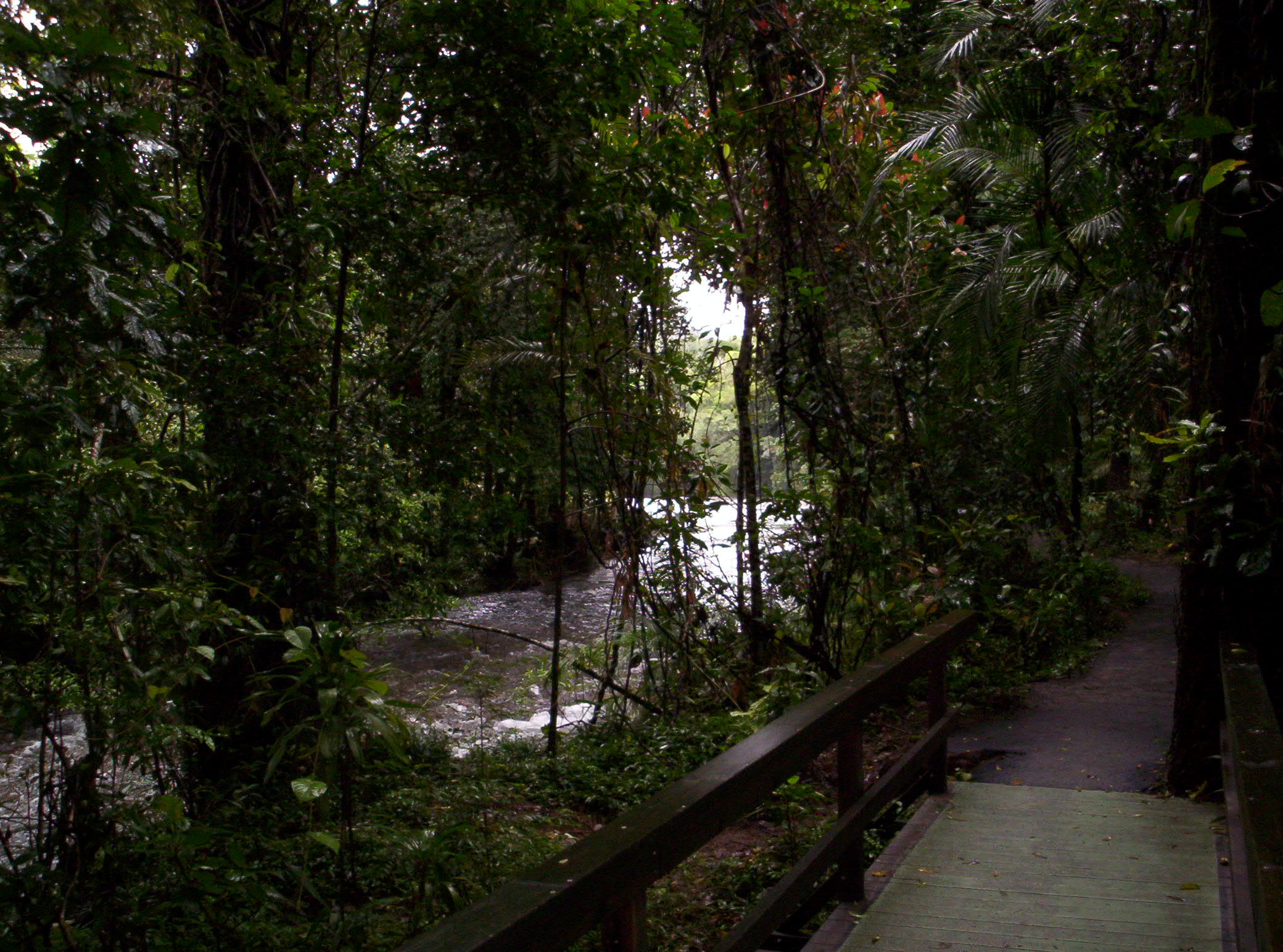 Babinda Creek, near The Boulders at Babinda, Queensland